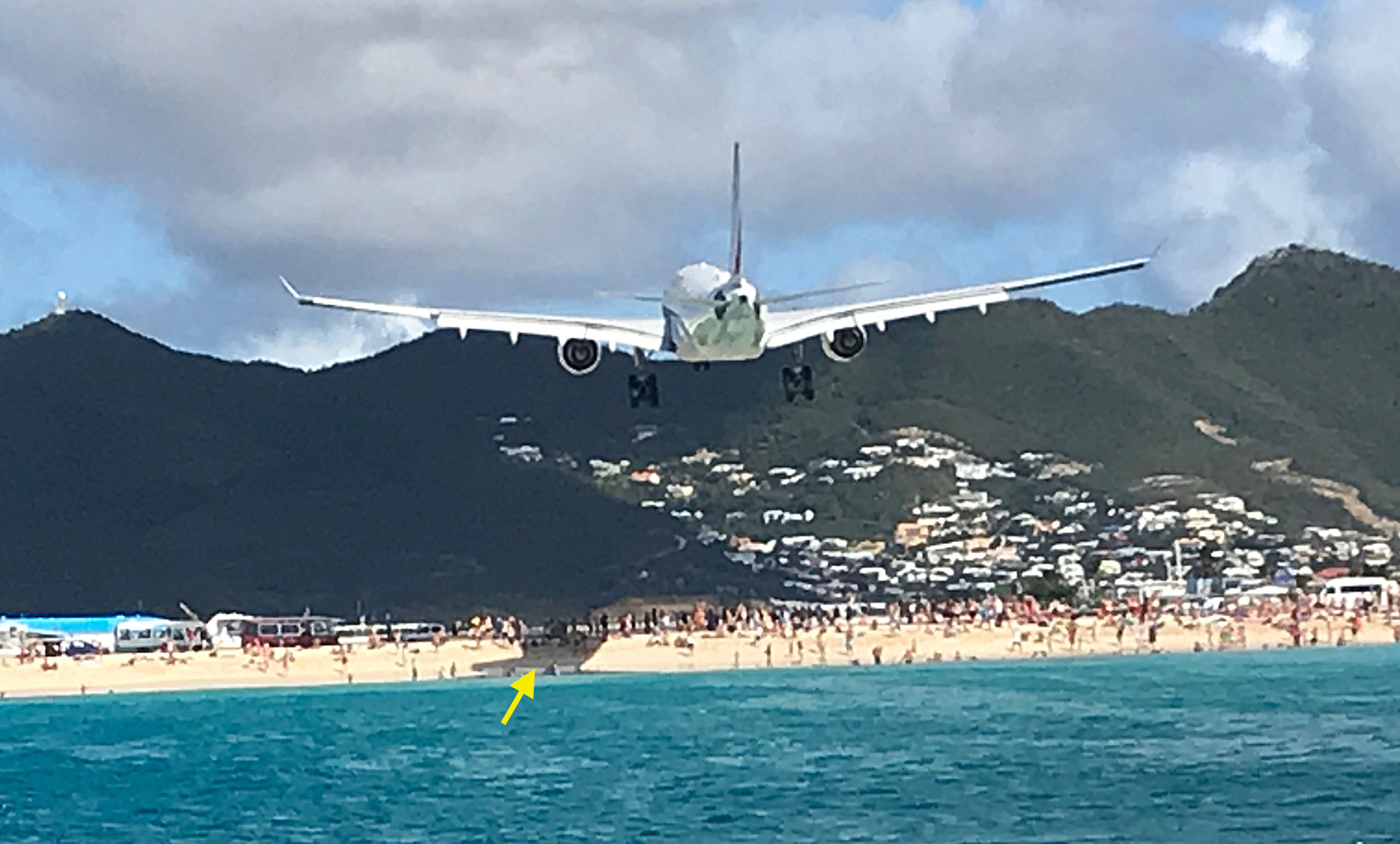 View from water of jet on final approach to land at Princess Juliana Airport, St. Maarten, above Maho Beach. Yellow arrow indicates aircraft's shadow on beach.